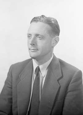 A 1956 black and white portrait of Jim Cairns, MP for Yarra